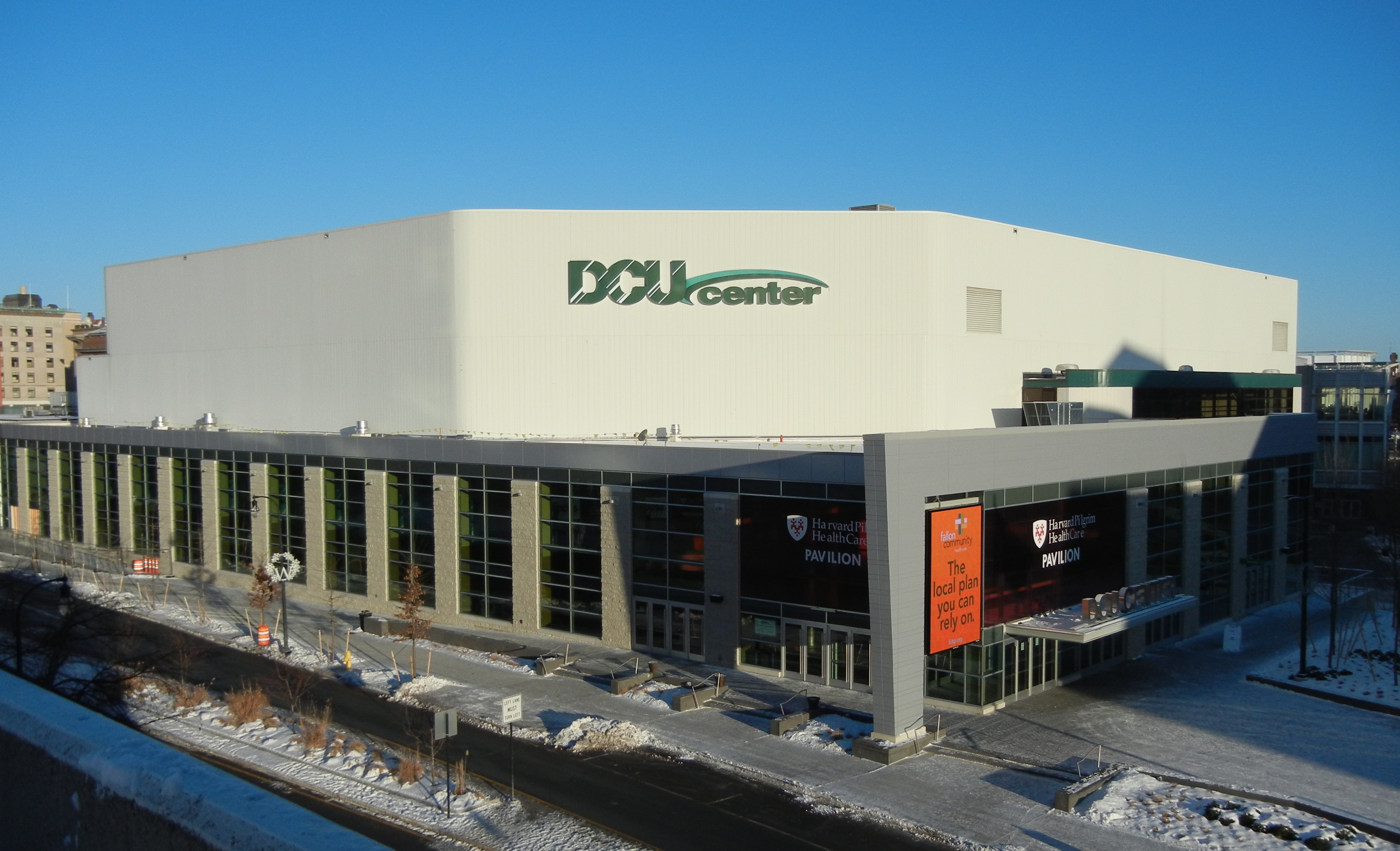 DCU Center at 50 Foster Street in Worcester, Massachusetts USA